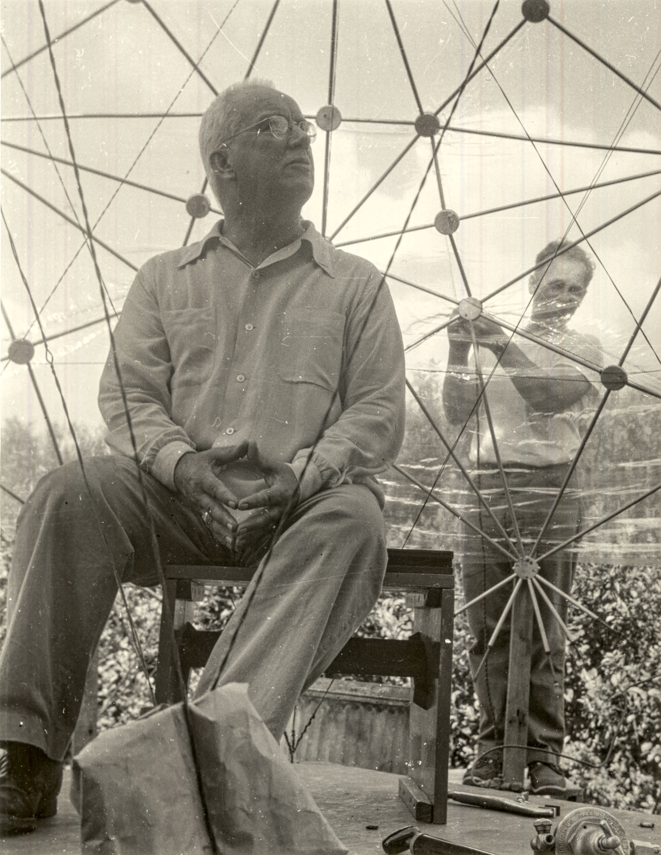 From the Black Mountain College Research Project Papers, Visual Materials, North Carolina State Archives, Raleigh, NC.